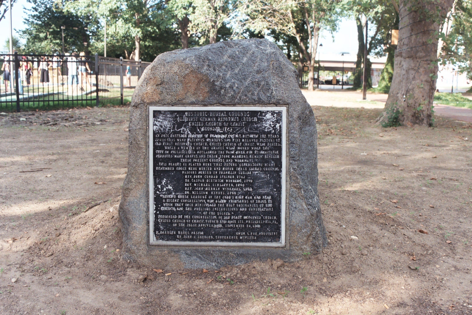 Franklin Square at 7th Street and Vine, Philadelphia, Pennsylvania - Burial ground plaque for the German Reformed Church of the United Church of Christ.